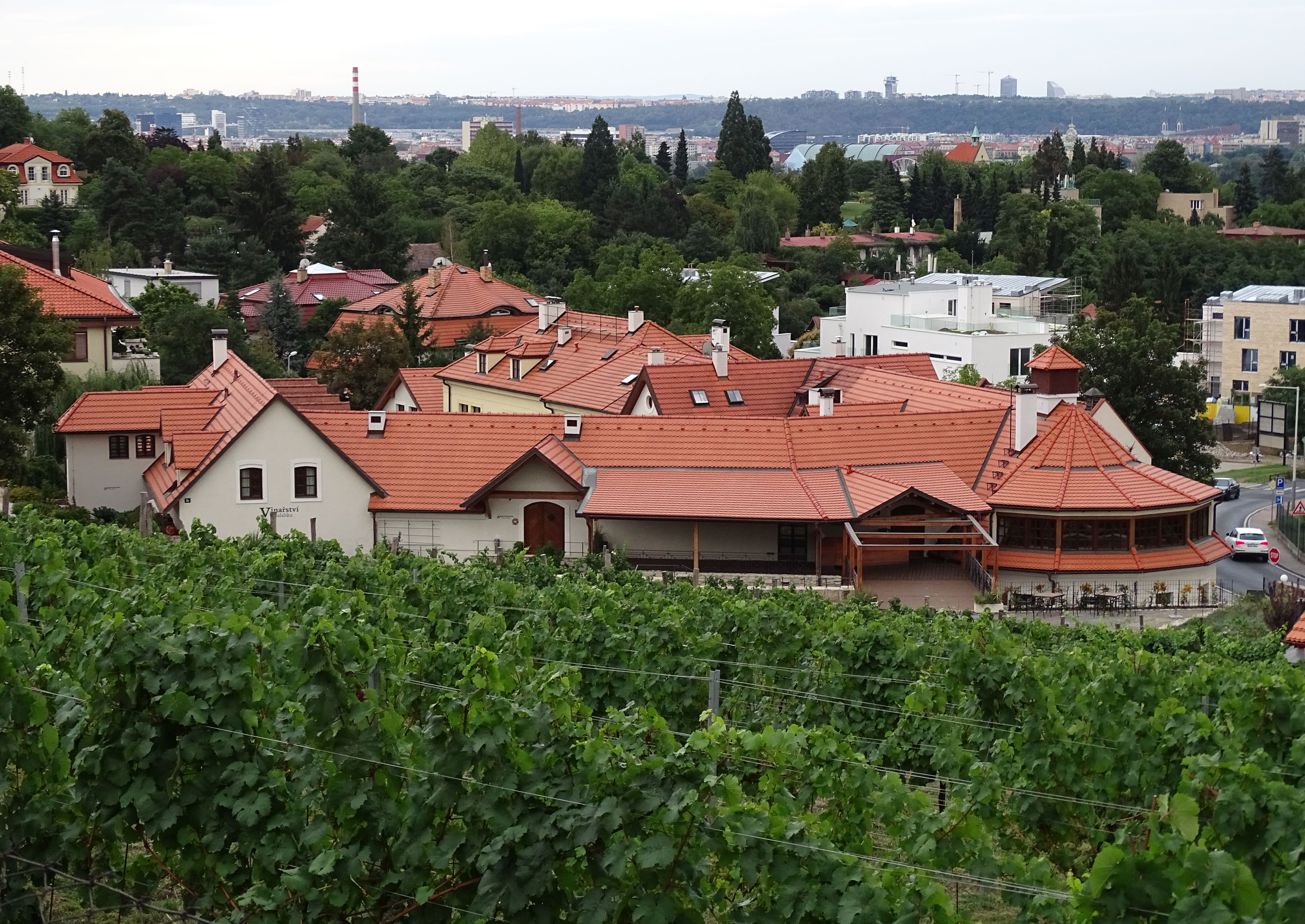 Prague-Troja, Czech Republic. K Bohnicím street, Salabka.